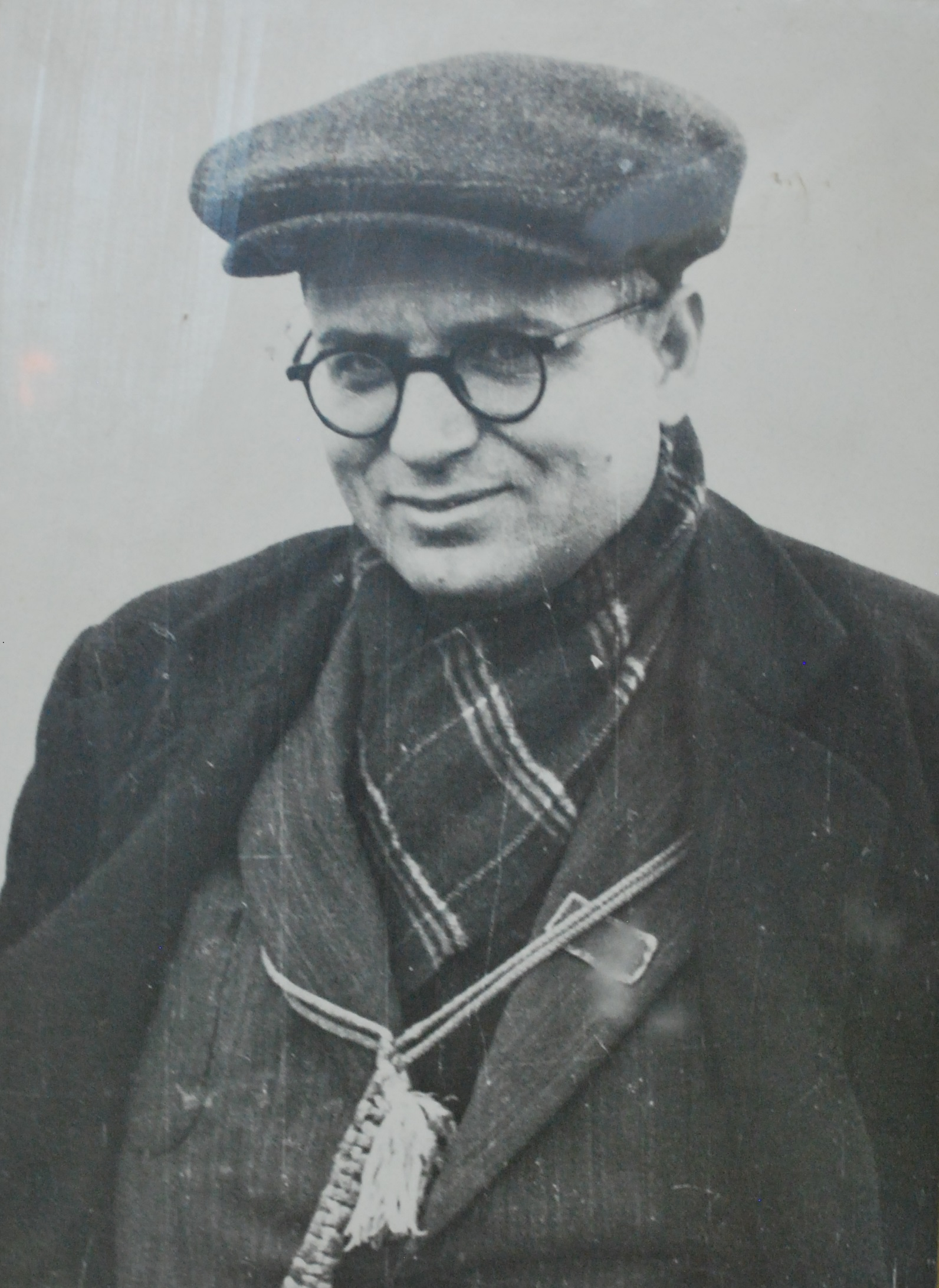 Bane Andrejev (1905-1980) was Macedonian communist and ASNOM delegate during World War II in Macedonia. In 1949, he was accused and imprisoned after aligning with the Cominform Resolution against Yugoslavia. He was rehabilitated soon after, but never came back to the politics.